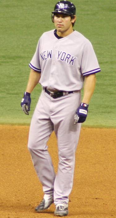 Photo by Googie Man 11:59, 4 May 2006 . . Googie man . . 375×700 (245,843 bytes)